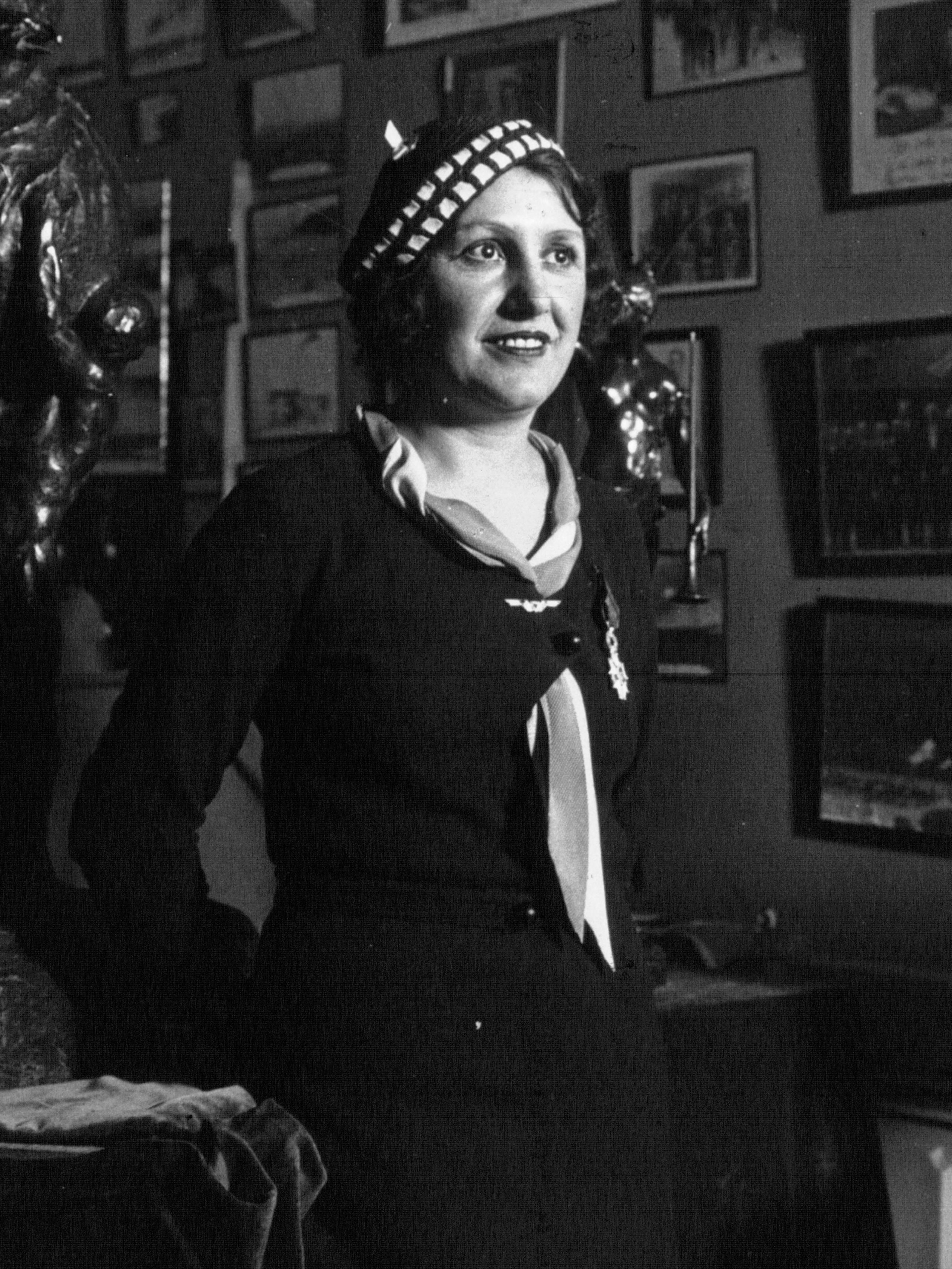 French aviator Maryse Bastié (1898-1952).